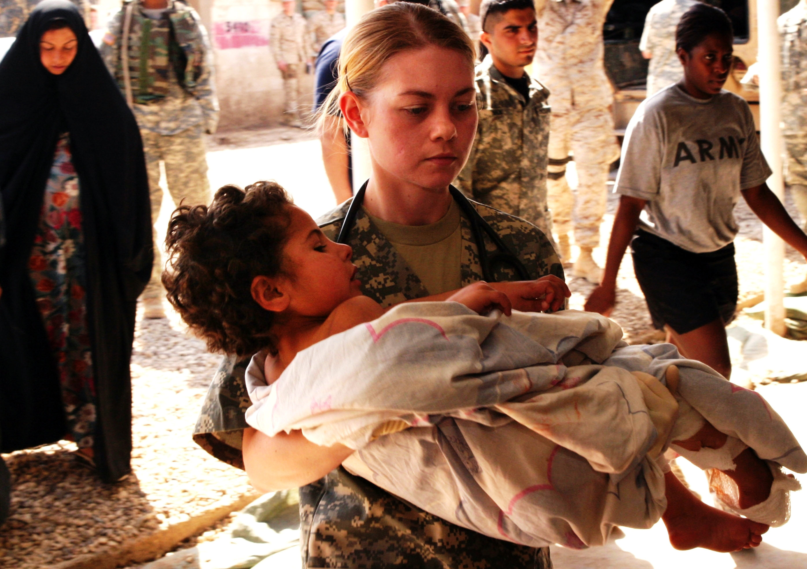 A Soldier carries a wounded Iraqi child into the Charlie Medical Centre at Camp Ramadi, Iraq, 20th of March. The child is one of several Iraqis who were attacked by guerilla forces in Western Iraq